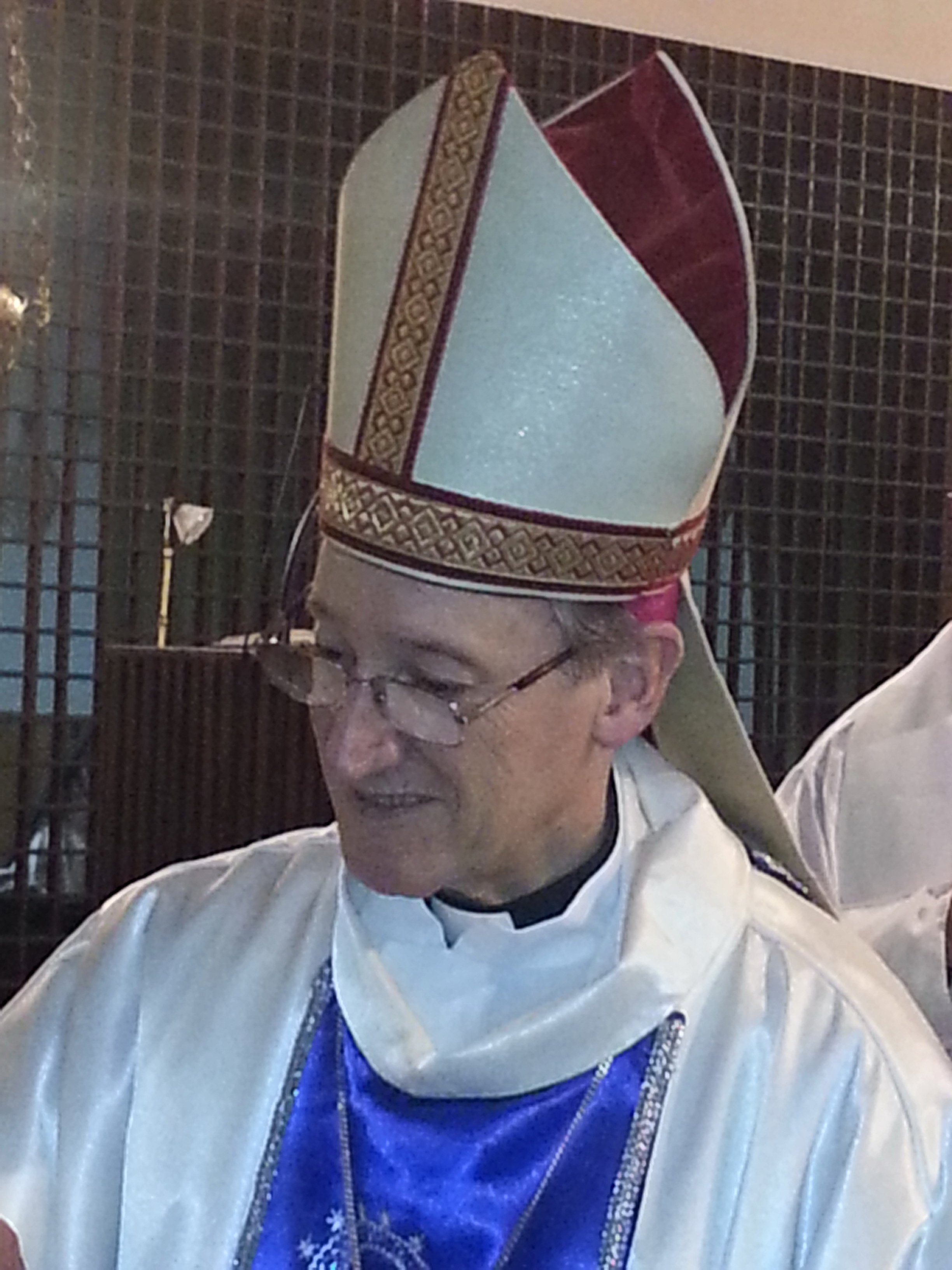 Joaquín Mariano Sucunza. Auxiliary Bishop, Vicar general of the Roman Catholic Archdiocese of Buenos Aires. Titular Bishop of Saetabis.